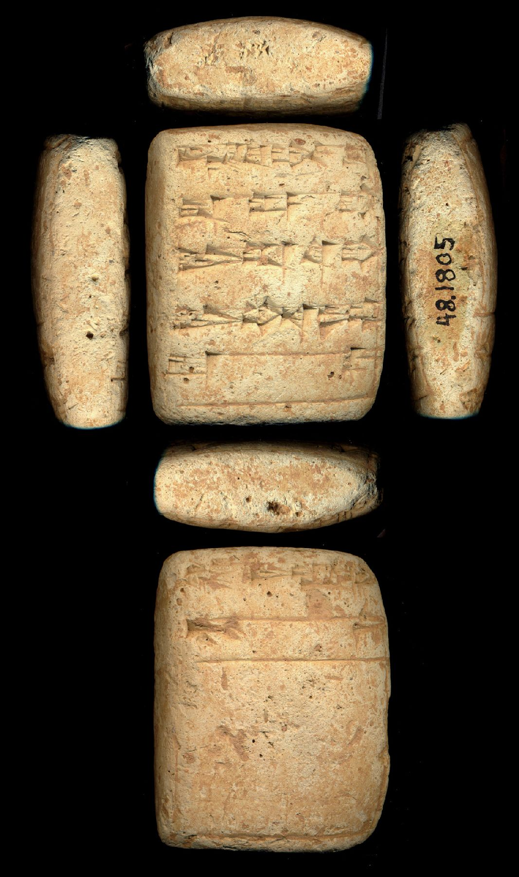 This clay tablet has a cuneiform inscription on two faces and a building inscription of Sin-Kashid of Uruk.